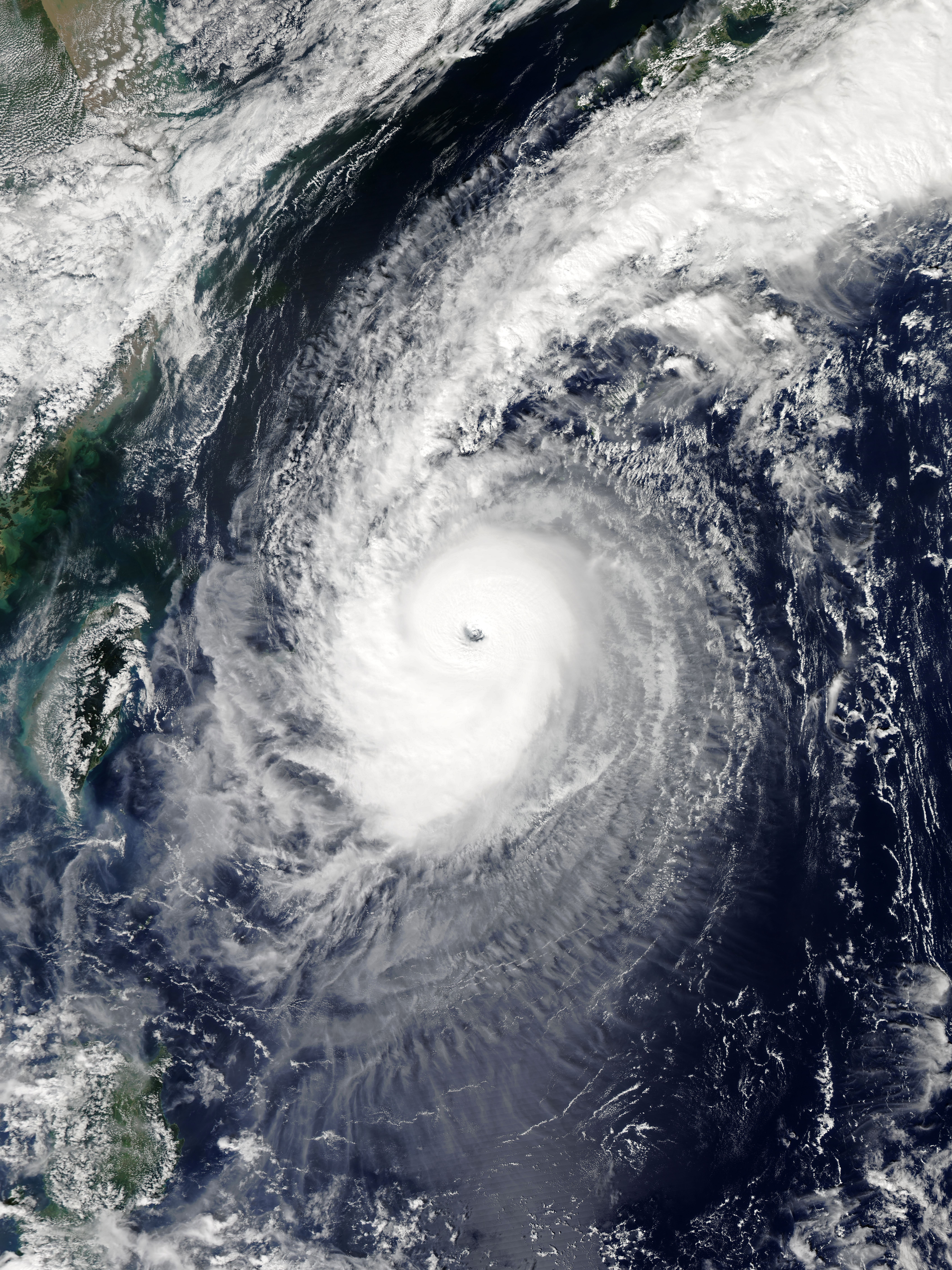 Typhoon Chaba reaching its peak intensity near Okinawa, Japan on October 3, 2016.